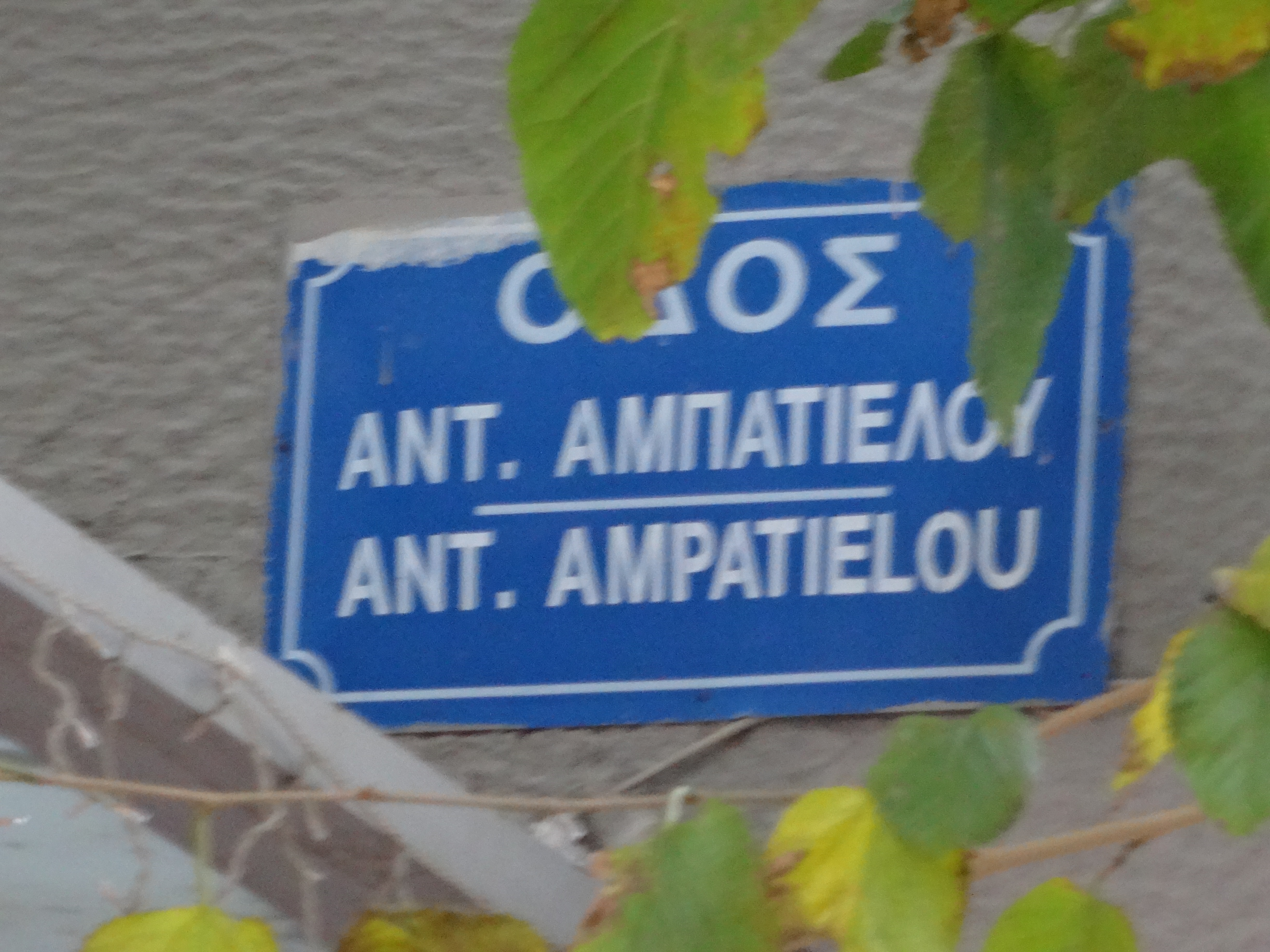 Street named after seaman and trade unionist Antonis Abatielos, Piraeus, Greece